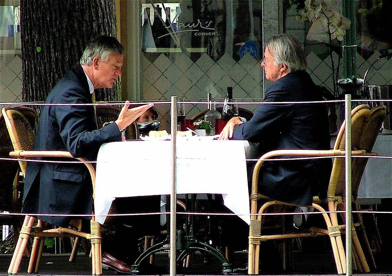 The man to the right is former Dutch minister Jozias van Aartsen. The man on the left is Antony Burgmans, former chairman of UnileverSecret meeting